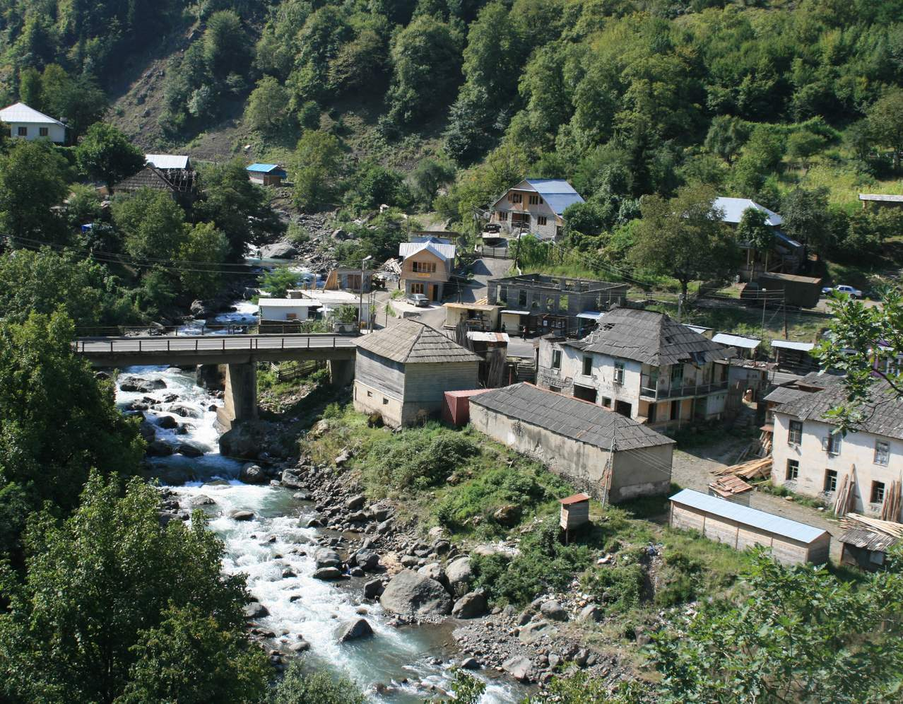 Khaishi, Georgia